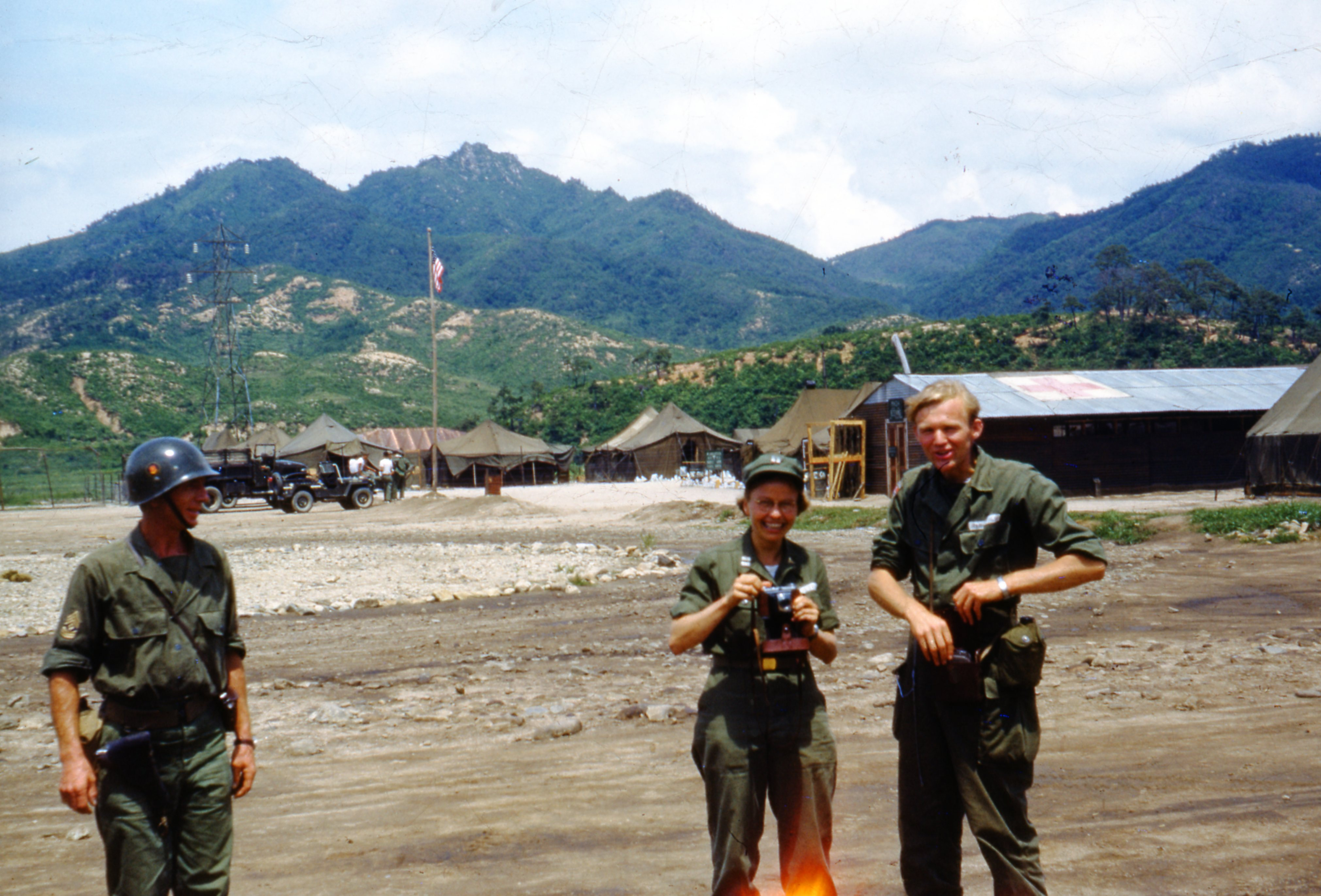 Format: Lysbilde / Dias Dato / Date: 1952 Fotograf / Photographer: Inger Schulstad (1920 - 2010) Sted / Place: Korea Wikipedia: Norwegian Mobile Army Surgical Hospital Wikipedia: Koreakrigen (1950 - 1953) Eier / Owner Institution: Trondheim byarkiv, The Municipal Archives of Trondheim Arkivreferanse / Archive reference: Tor.H49.B01.B1067 Merknad: Dr. Schulstad med ukjent nordmann til venstre besøker et amerikansk Mobile Army Surgical Hospital.